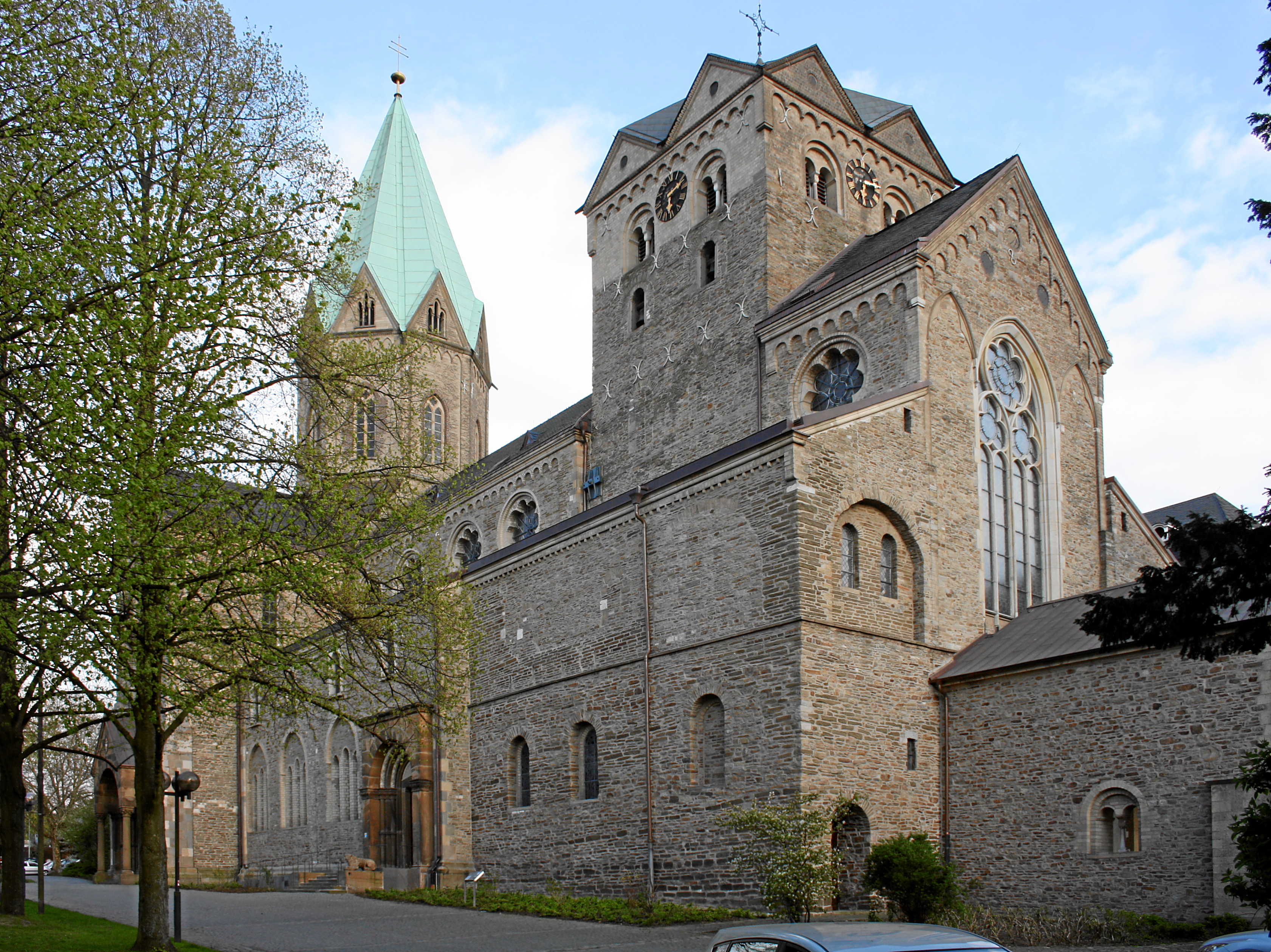 Essen-Werden, Germany. Roman-catholic church St. Ludgerus, basilica minor. Exterior from North-West.